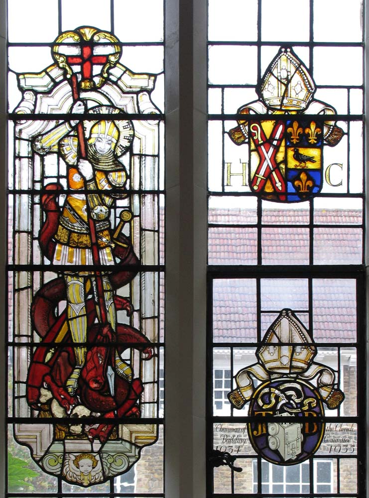 Emmanuel, Lea Bridge Road, Leyton, London E17 - Window St George. Showing arms of Henry Wilson, Bishop of Chelmsford 1929-1950 "HC, Henry Chelmsford"